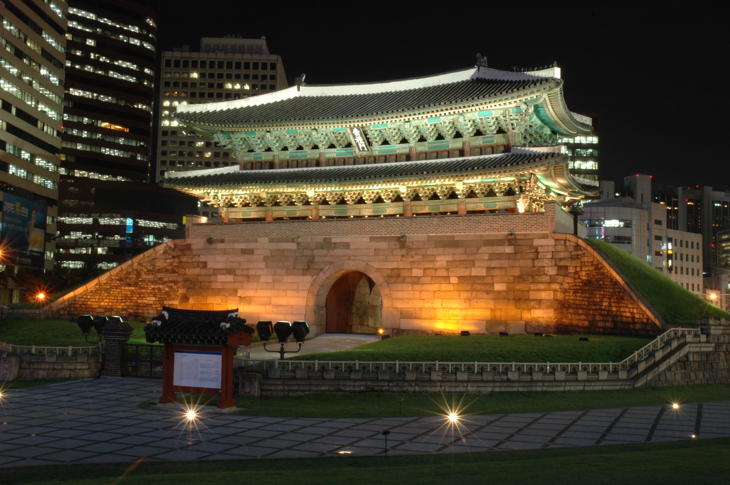 Nandaemun gate at night --Photo by jpatokal.